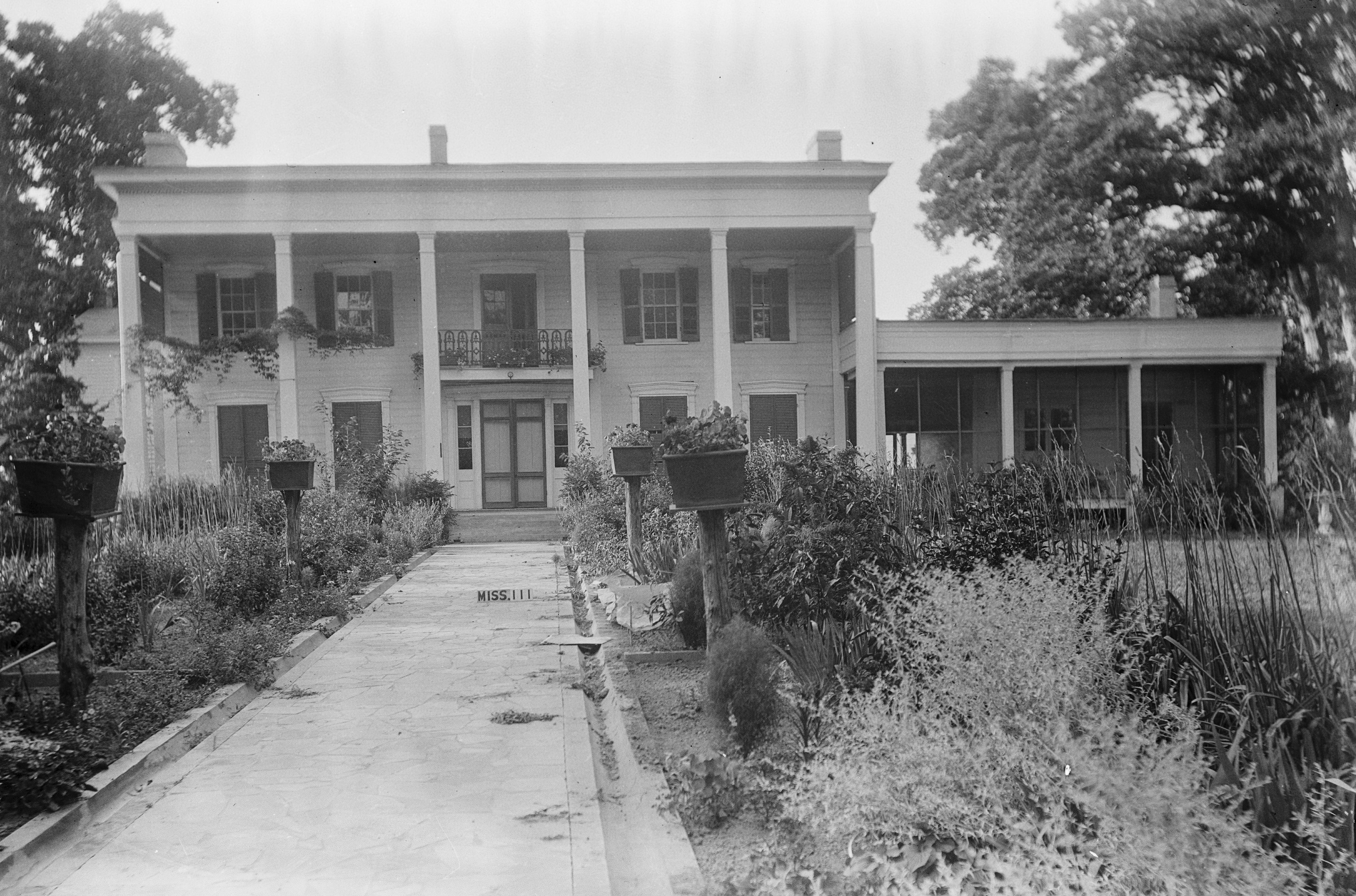 Front of Cotesworth, located on Old Grenada Road north of North Carrollton in Carroll County, Mississippi, United States. Built in 1887, it is listed on the National Register of Historic Places.